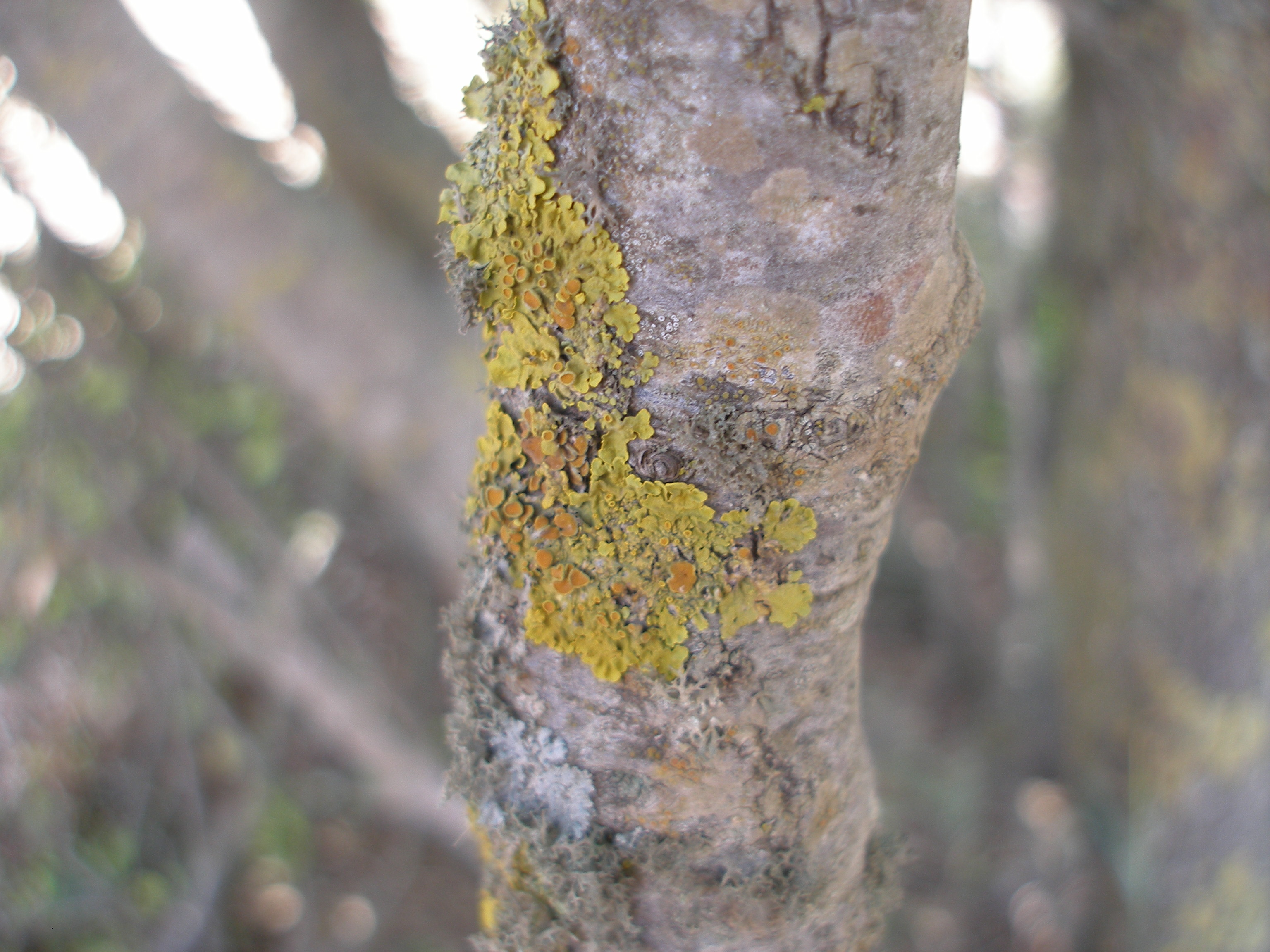 lichen, the Upper Galilee